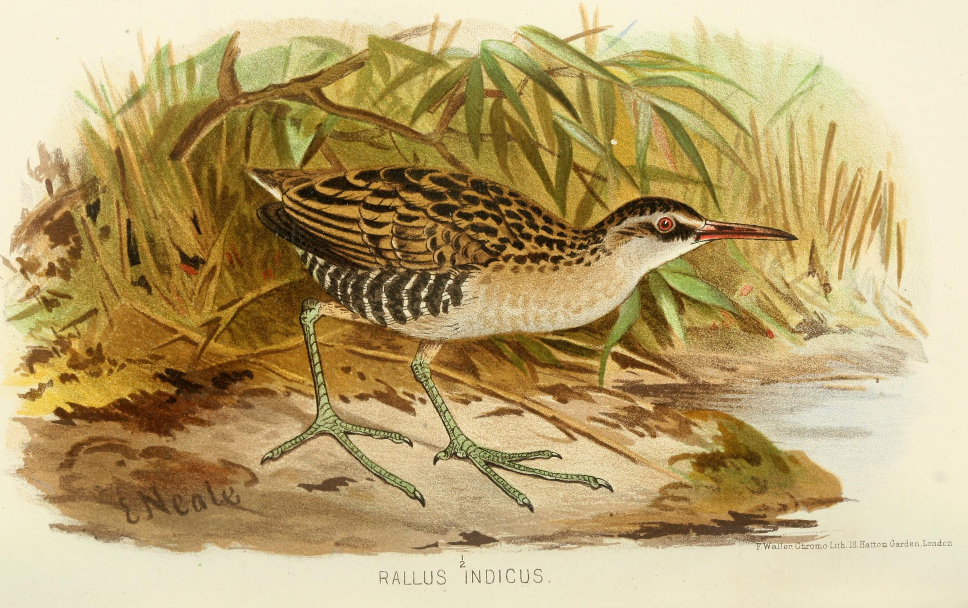 A painting of Rallus indicus by Edward Neale from Hume and Marshall's 1880 Gamebirds of India Burmah and Ceylon (volume 2). Reprinted in Frank Finn's 1915 Indian Sporting Birds.